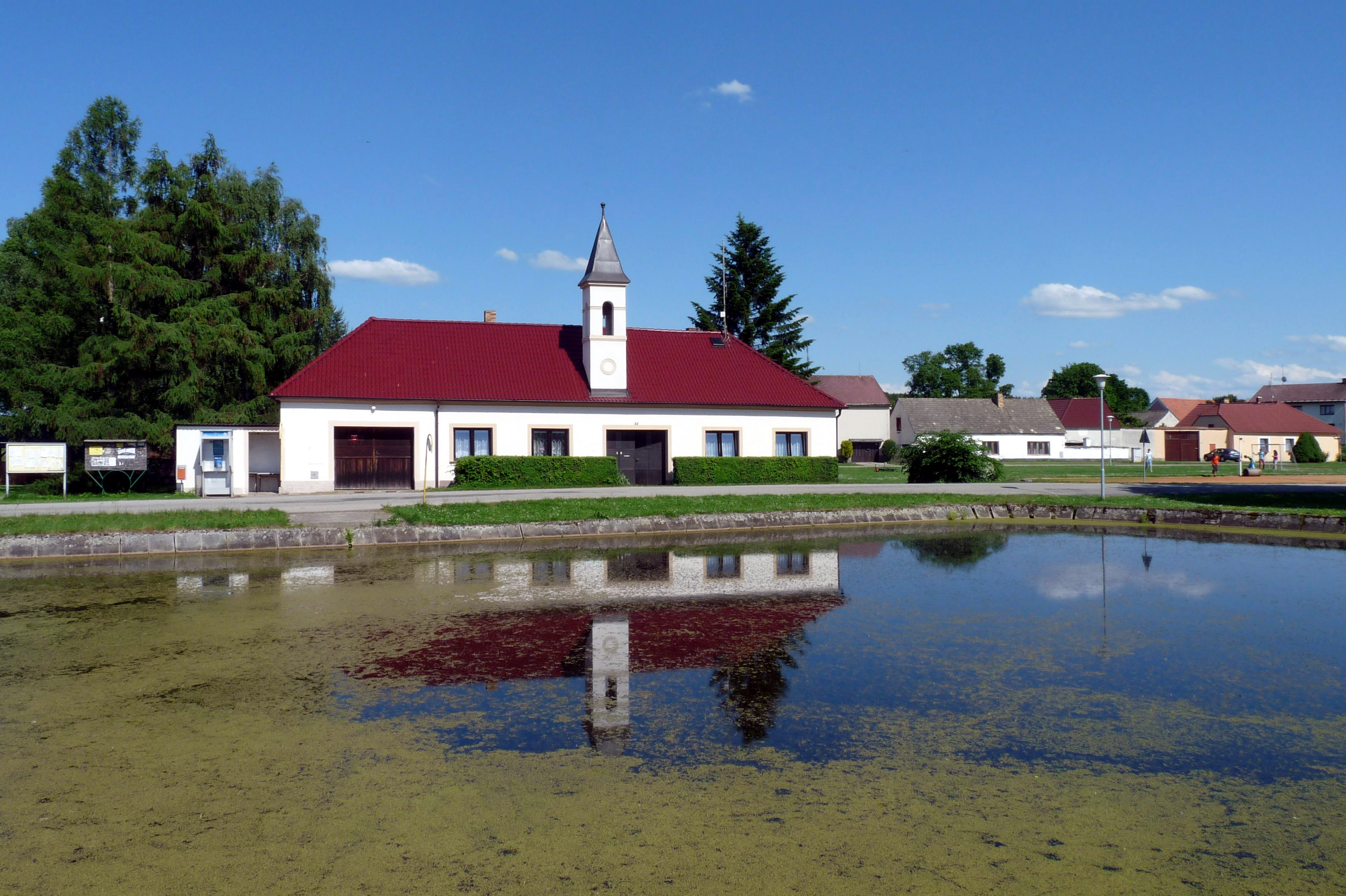 House No 33 and the pond in the village of Hlavatce, České Budějovice District, South Bohemian Region, Czech Republic.